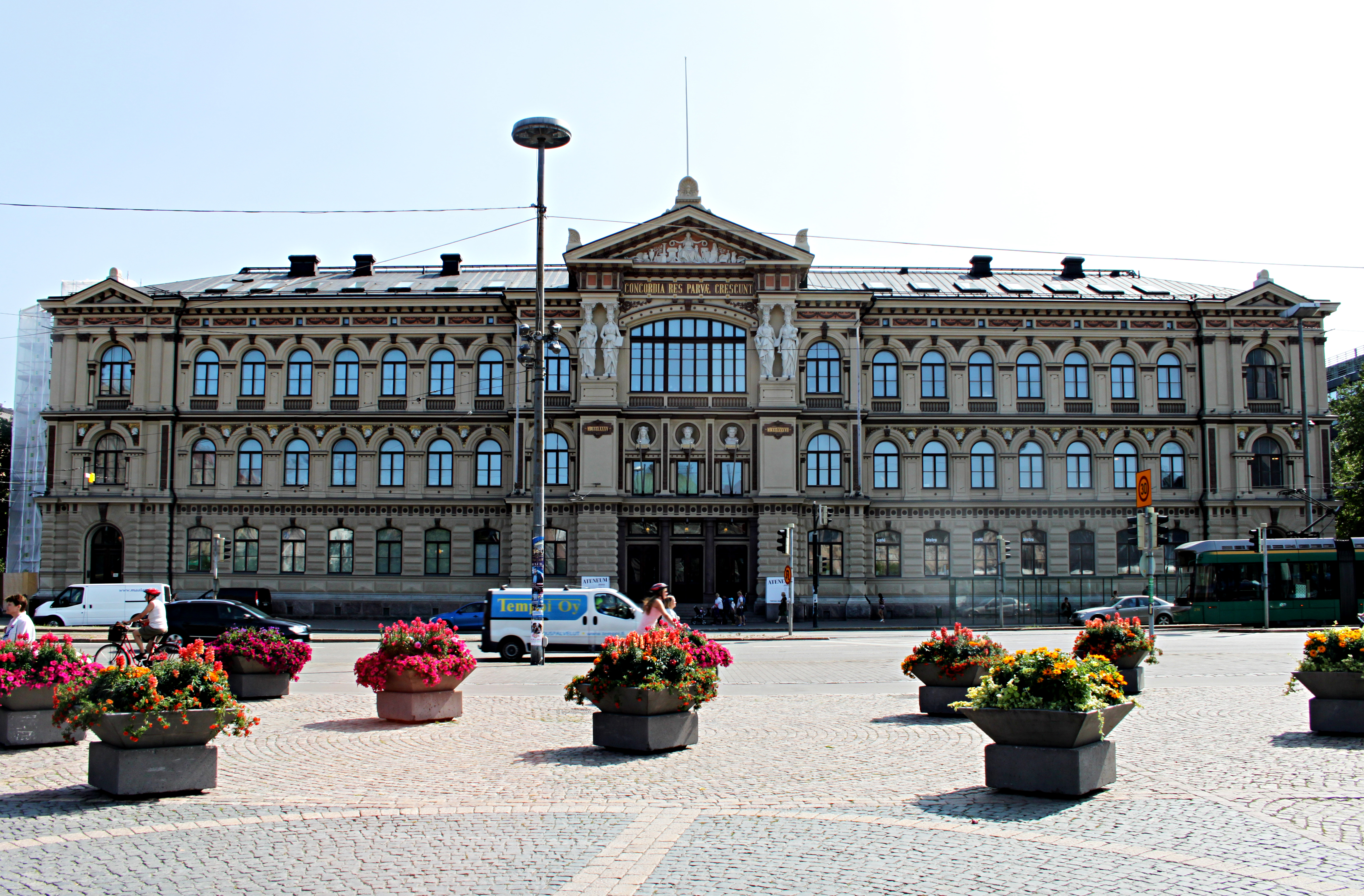 Ateneum Art Museum, Kaivokatu 2, Helsinki. Architect Theodor Höijer, Built 1887.